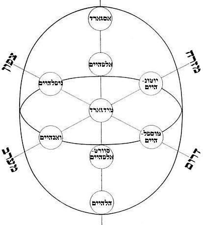 Diagram of the Nine Worlds of Norse mythology.